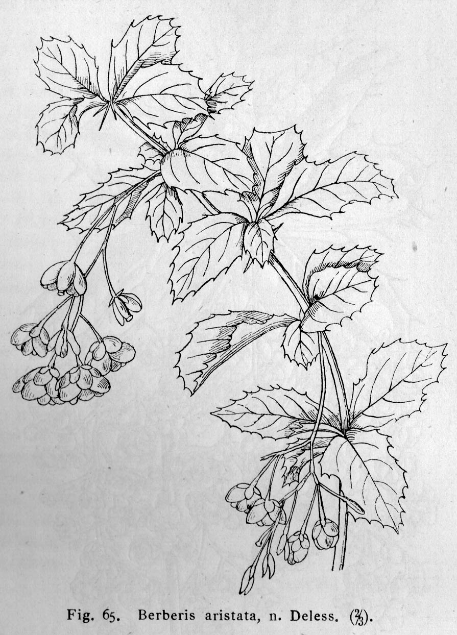 Drawing of Berberis aristata (original: FIG_065.JPG)